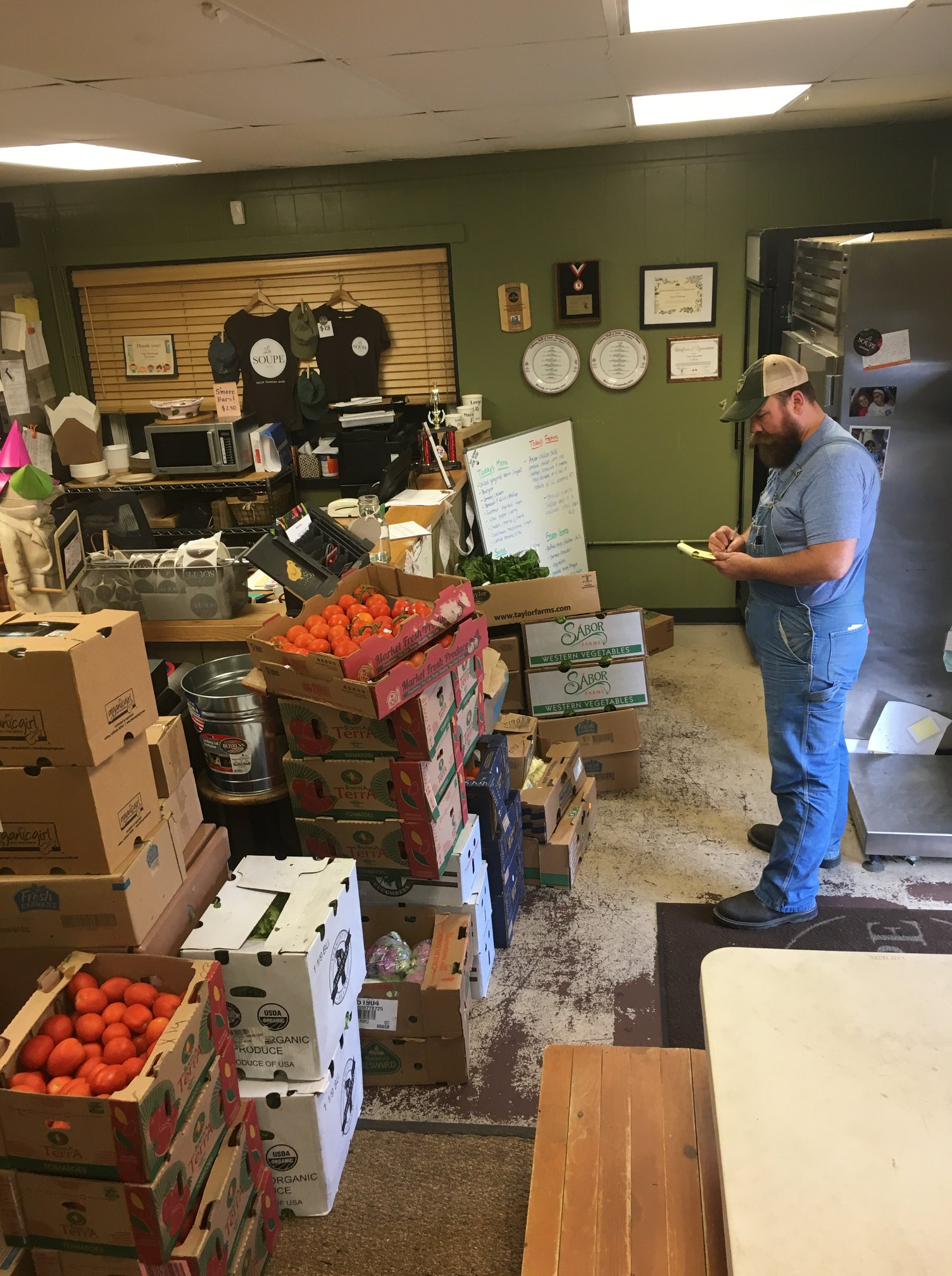 Daily La Soupe rescue of produce